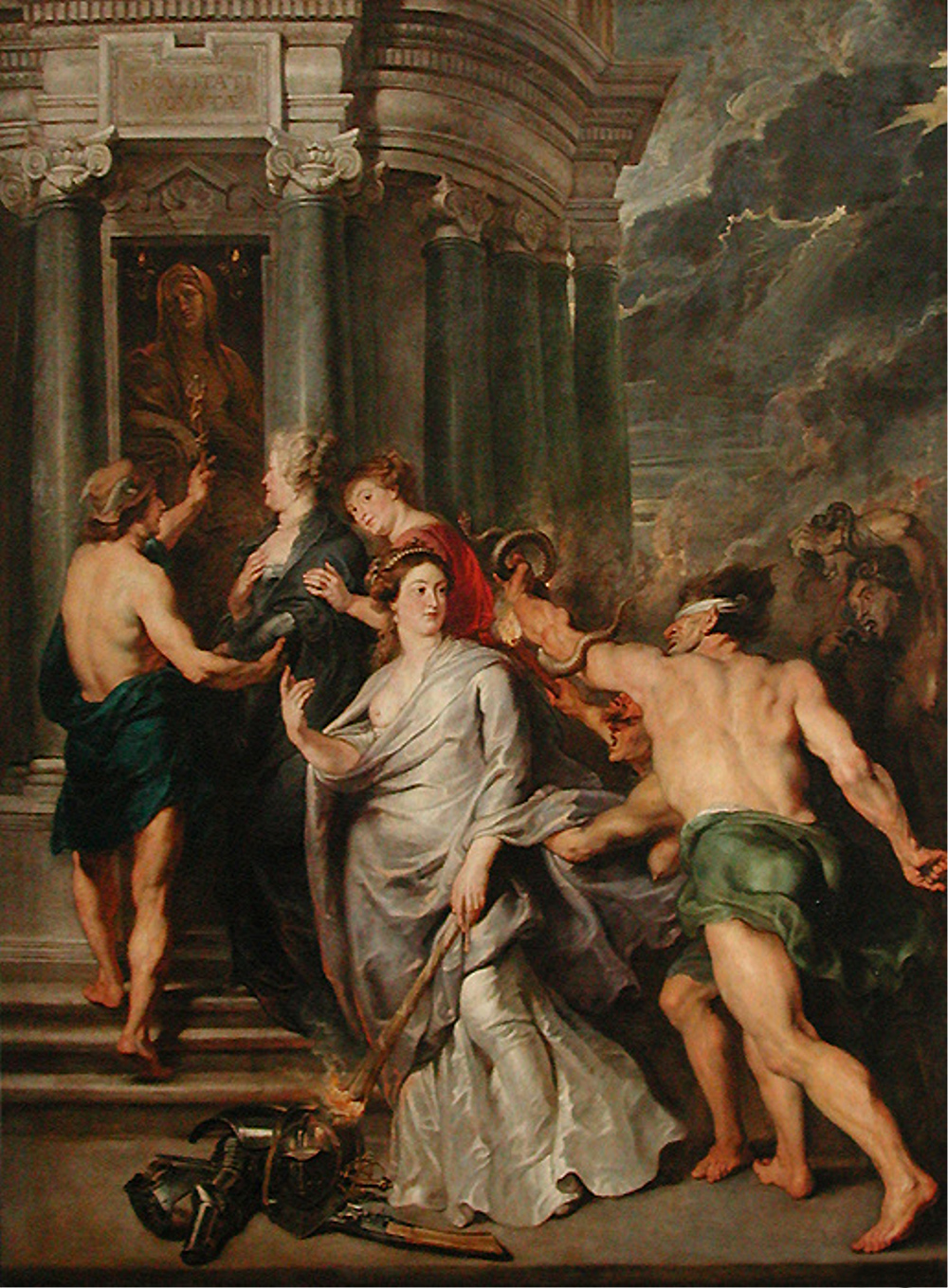 Allegory on the peace concluded on 10 August 1620 after a civil war between the King of France Louis XIII and his mother Marie de' Medicis. Part of a series of 24 paintings illustrating the life of Marie de' Medici.